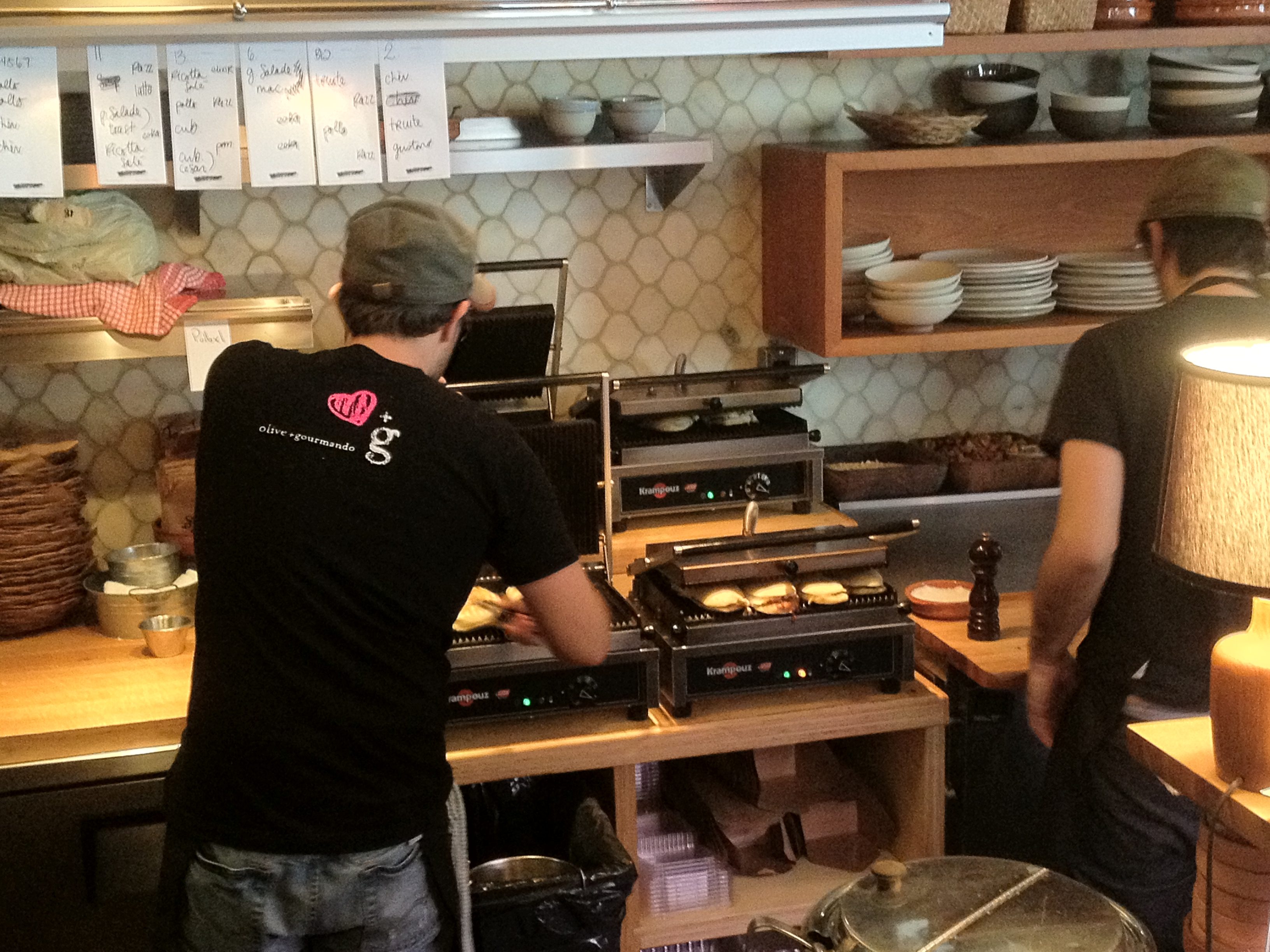 Professional Krampouz panini machines in use in Montreal coffee place